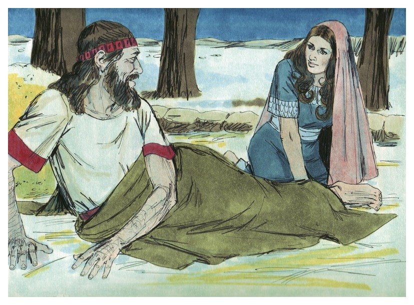 Biblical illustration of Book of Ruth Chapter 3